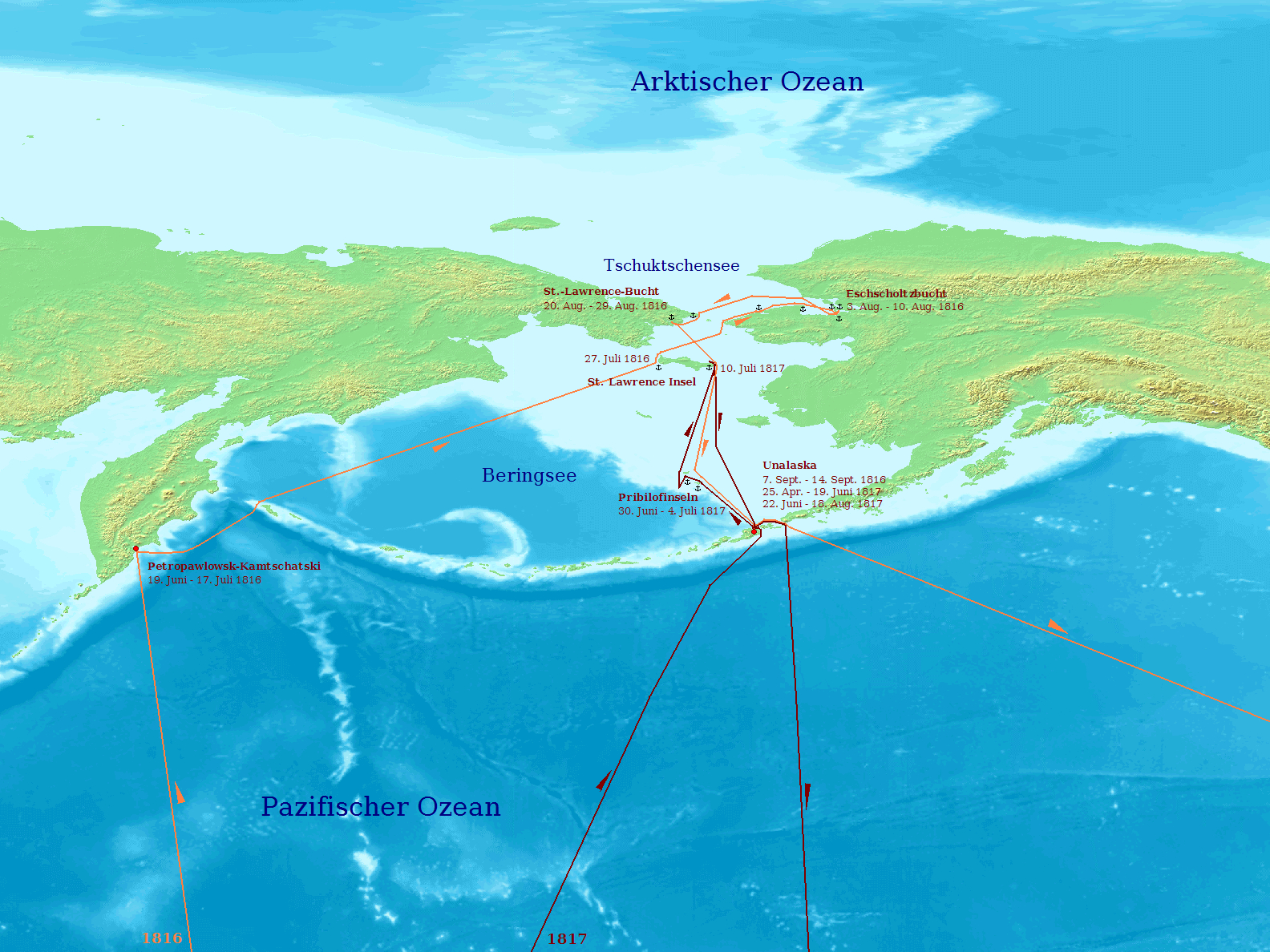 The summer campaigns of the Rurik expedition in 1816 and 1817.